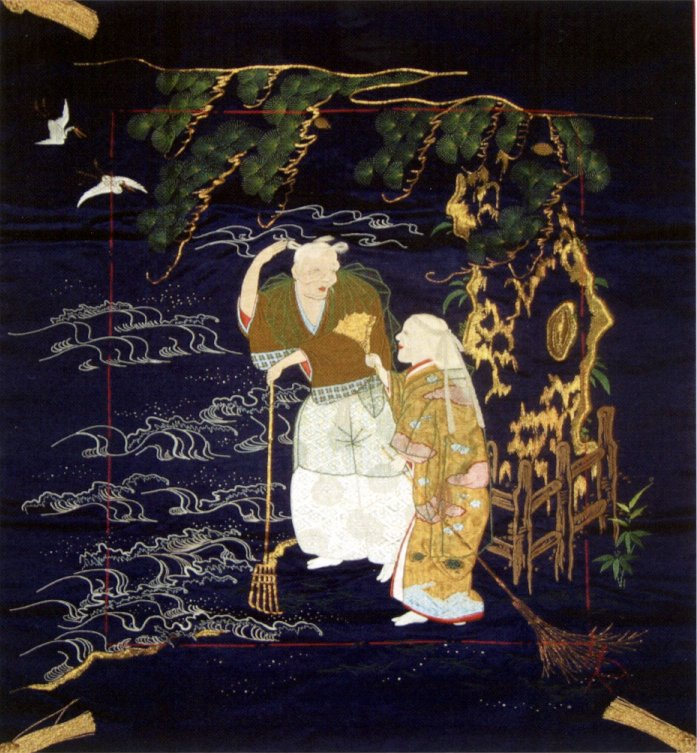 19th century Fukusa portraying the legend of Takasago with Jo and Uba under a pine tree, embroidered silk and couched gold-wrapped thread on indigo dyed shusa satin silk